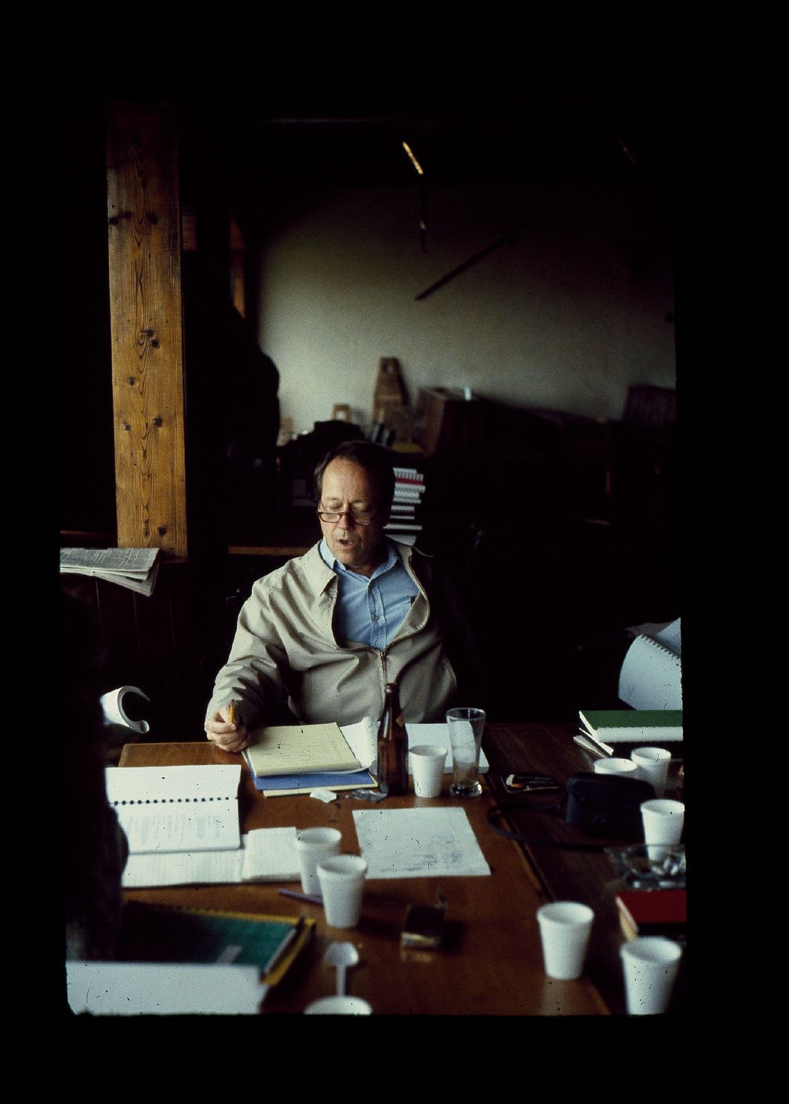 Working on a script